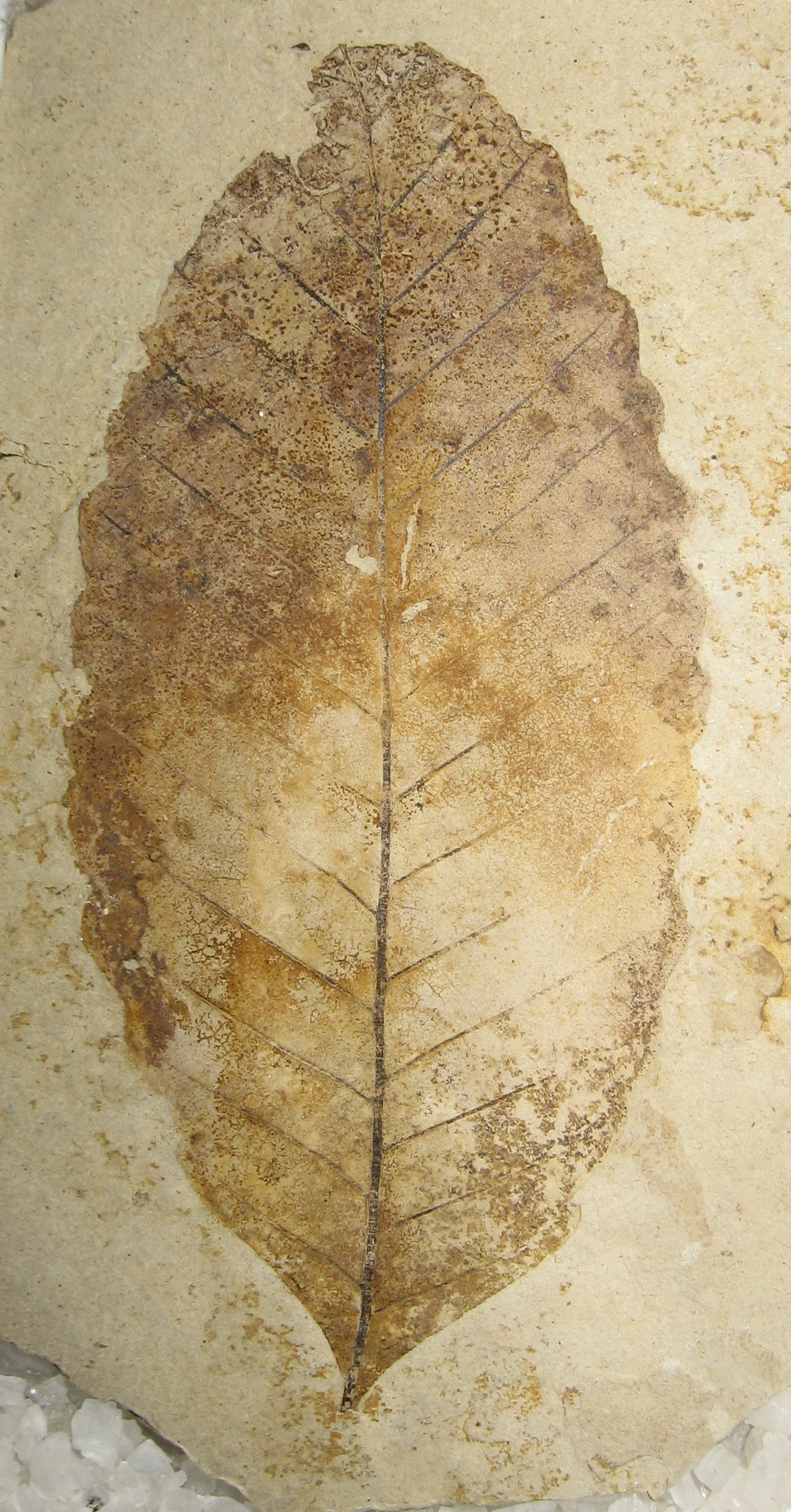 A 9.5cm tall fossil leaf from the extinct beech species Fagopsis undulata. 49 million years old, Klondike Mountain Formation, Republic, Washington. Stonerose Interpretive Center Collections #SR 93-05-05.